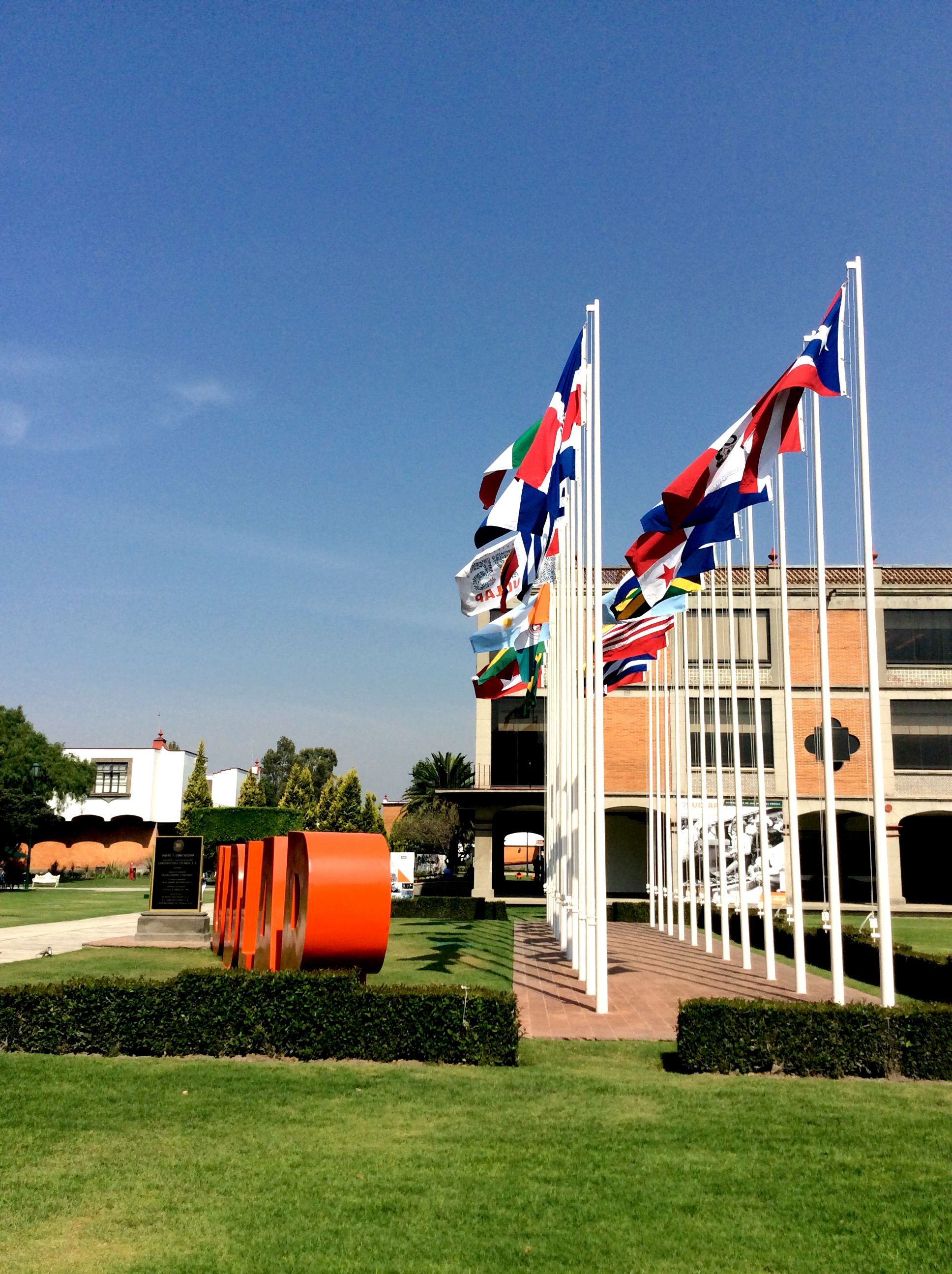 Fotografías de la autoría de la Universidad de las Américas Puebla para uso de la comunidad.